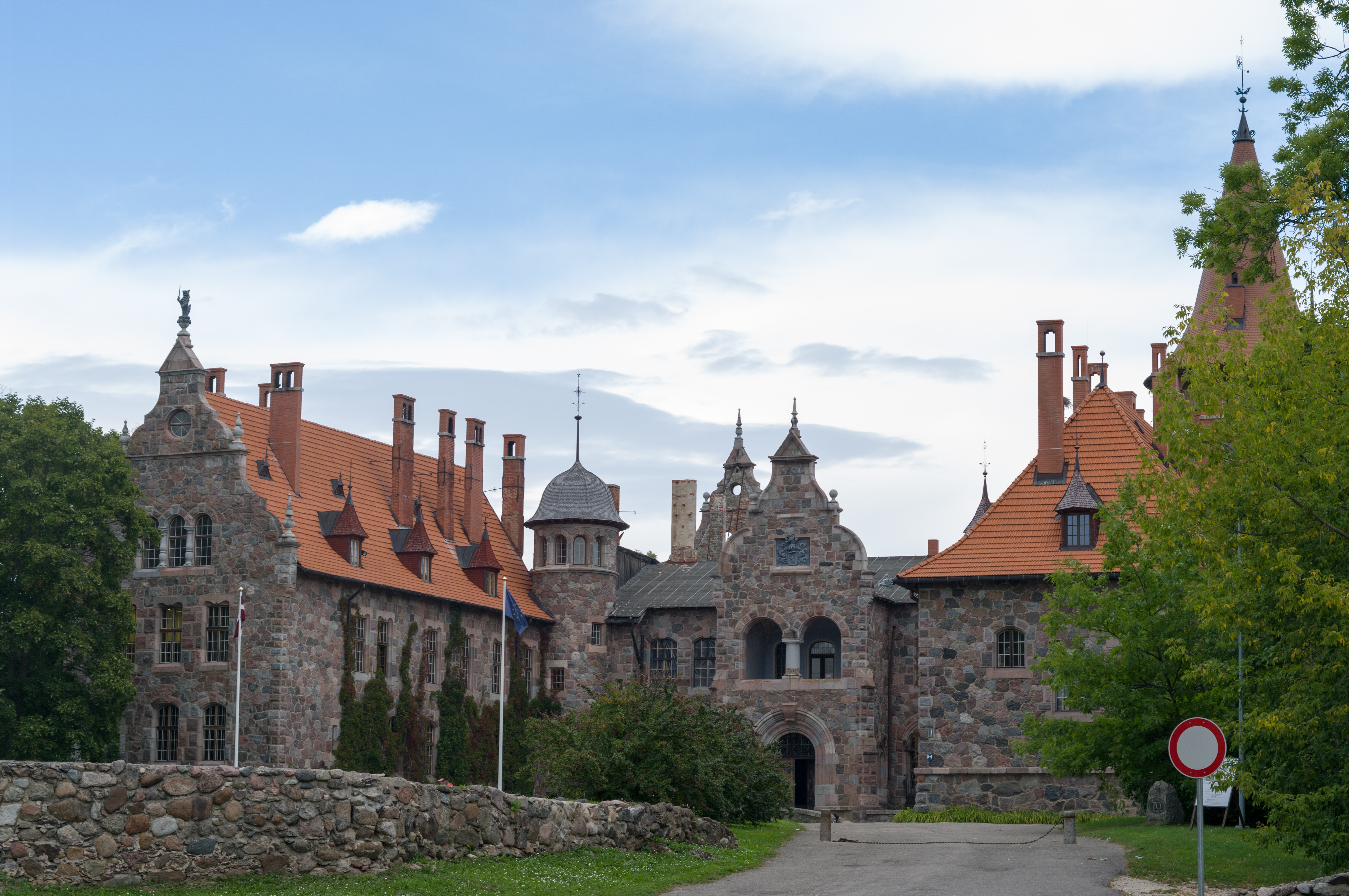 This photo was taken during a Wikiexpedition set up by Wikimedia Eesti. You can see all photographs in category WMEE-LV2013.